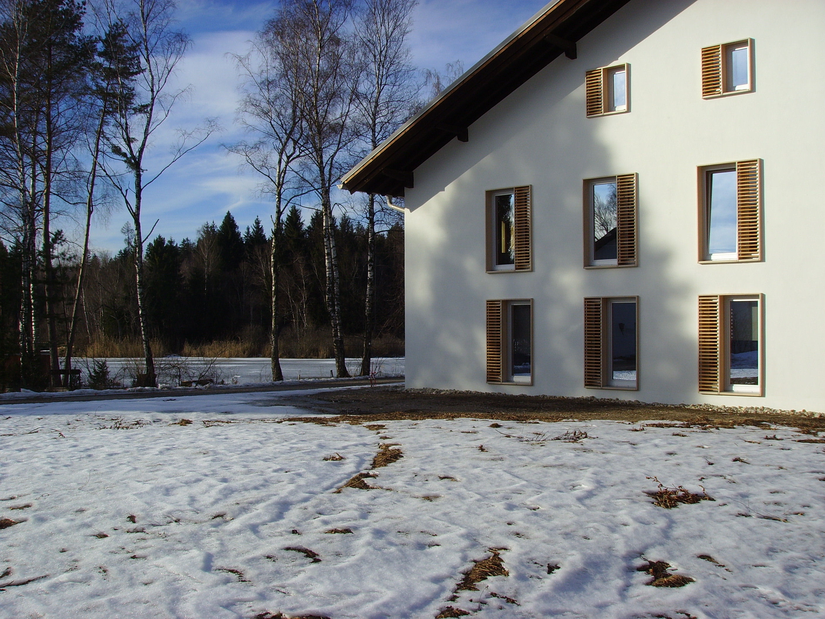 Max Planck Institute for Ornithology, Seewiesen (Bavaria, Germany), formerly known as Max Planck Institute für Behavioral Physiology